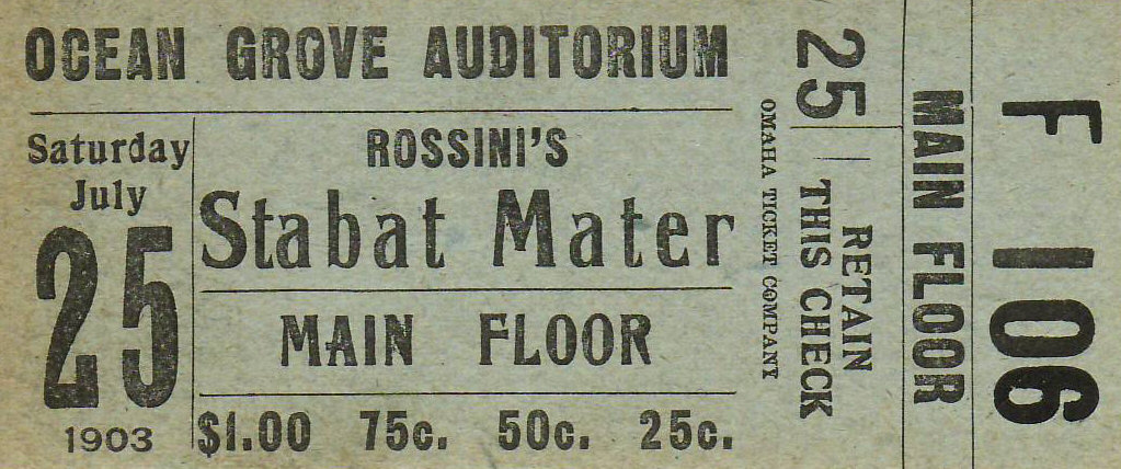 Ticket to a performance of Stabat Mater by Rossini at the Ocean Grove, New Jersey (U.S.) Great Auditorium on July 25, 1903.